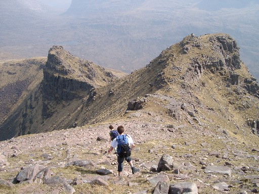 on the summit ridge of Beinn Dearg